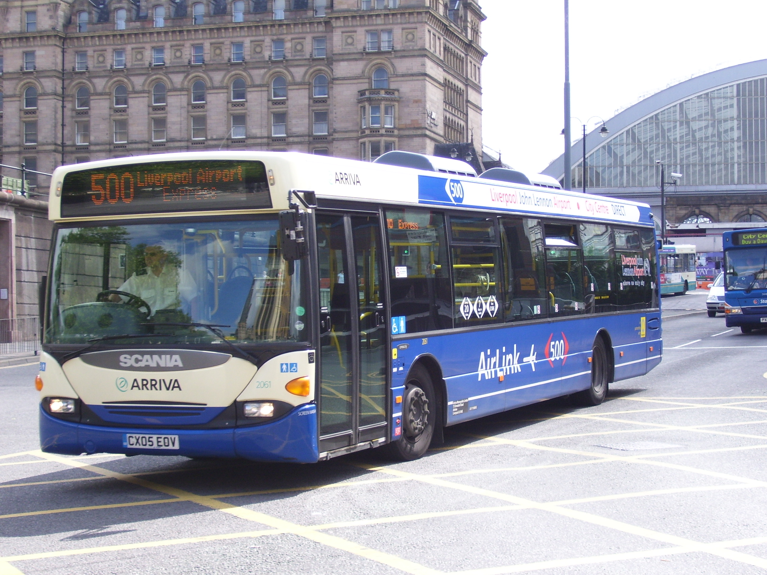 Arriva North West and Wales 2061 (CX05 EOV), a Scania OmniCity in Liverpool on route 500 to Liverpool Airport.